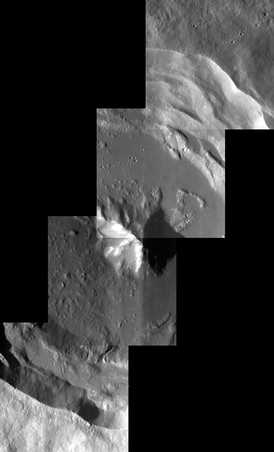 Kulthum crater on Mercury. MESSENGER Narrow Angle Camera mosaic (EN0236617387M, EN0236617390M, EN0236617393M, EN0236617396M). North is to upper right. Statistics below are approximately correct for the center of the mosaic. Emission Angle: 10.8 Incidence Angle: 66.6 Latitude: 50.7 Longitude: 93.6 Phase Angle: 55.8